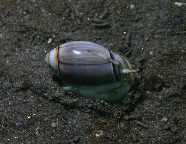 The olive snail Olivella biplicata can vary in color from near white to almost black